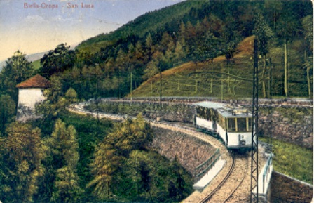 San Luca, Biella-Oropa tramway